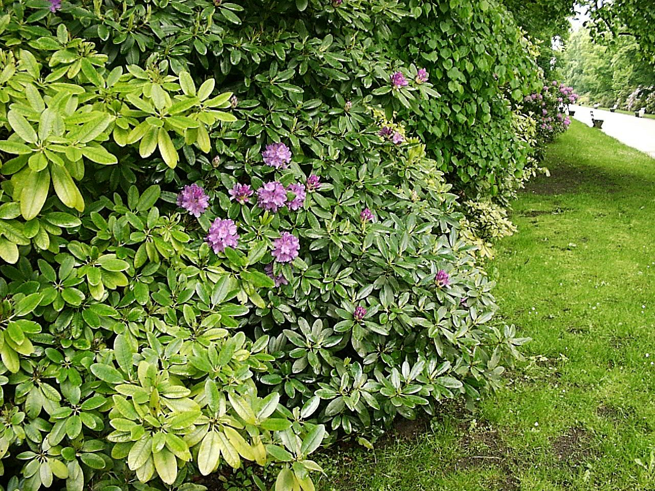 Rhododendron hedge in zoo Tierpark Friedrichsfelde, Berlin, Germany. May 2005. Public Domain.